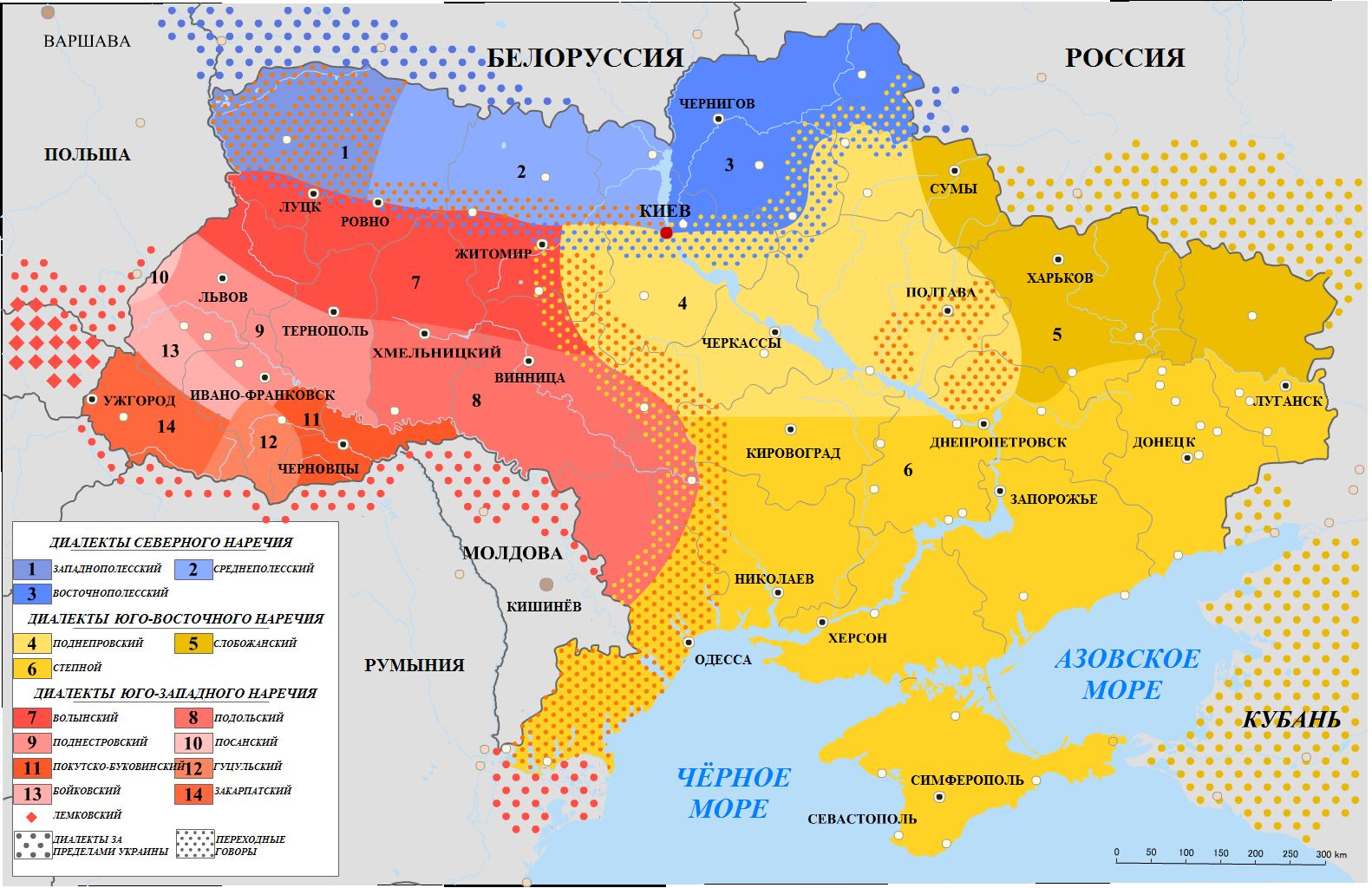 Map of Ukrainian dialects